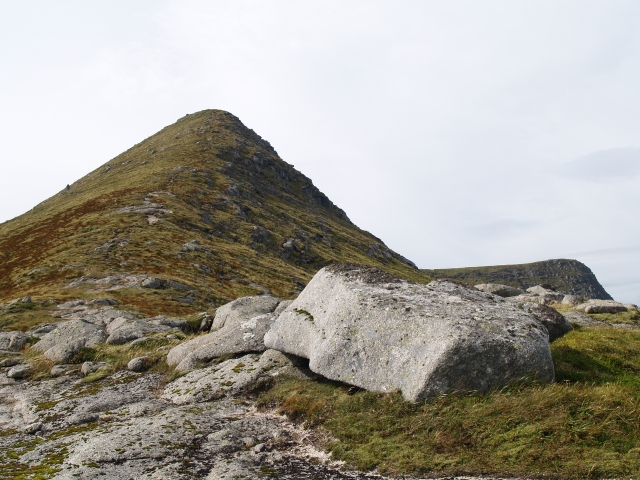 E Ridge, Stob Coir an Albannaich. The final section to the summit when ascending from the E.